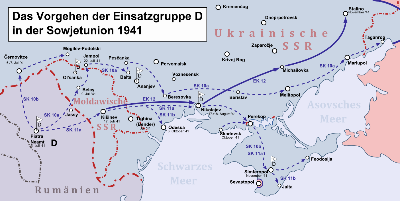 German Map, showing the conduct of operation of the German "Einsatzgruppe D" of the SS in the Soviet Union (Ukraine) in 1941.